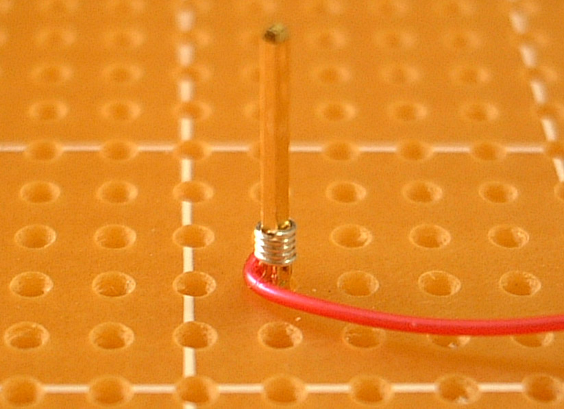 Wire wrapping example.